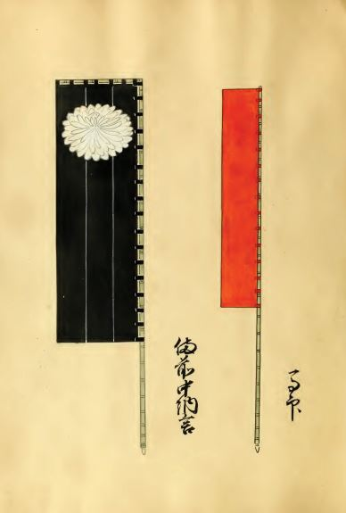 Battle Standard from the Battle of Sekigahara of 1600; Banner (white chrysanthemum)